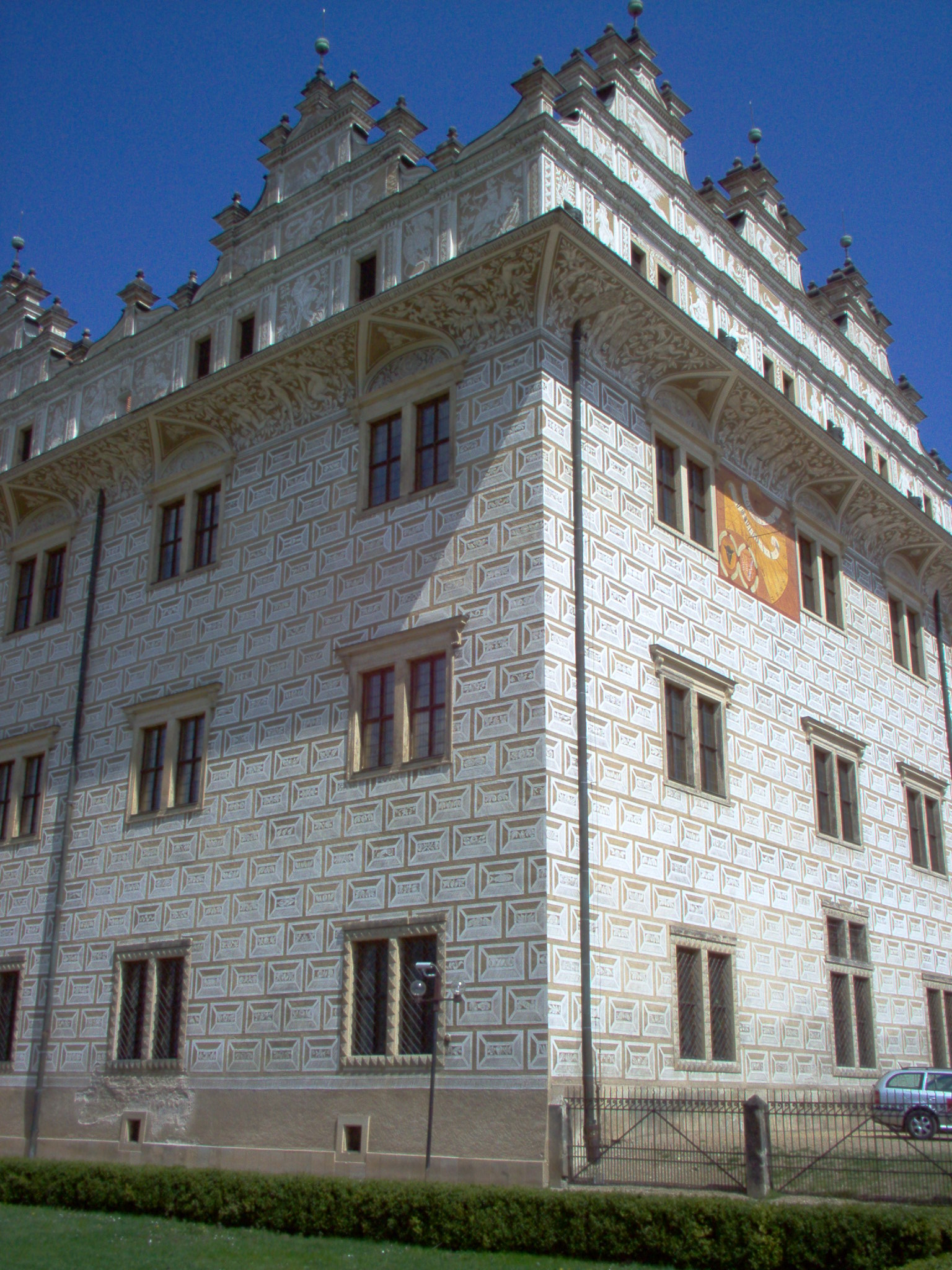 Title: Litomysl - castle, Czech Republic Author: Twisp Date: 21.04.2005